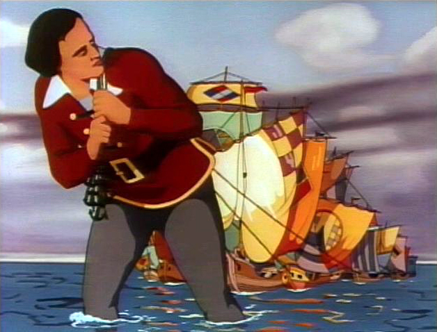 Screencap from the animated feature Gulliver's Travels, produced by Max Fleischer (1883–1972) DescriptionPolish-American screenwriter, film producer, film director, animator and inventorDate of birth/death 19 July 1883 11 September 1972Location of birth/death Kraków Woodland HillsAuthority control : Q93788 VIAF: 10821 ISNI: 0000 0001 1557 6975 ULAN: 500118612 LCCN: n85248141 Open Library: OL445484A WorldCat creator QS:P170,Q93788 Creator:David Fleischer in 1939. Copyright Report filed by the Library of Congress in 1974 states that no renewal was found for this film. Image is therefore assumed to be in the public domain.